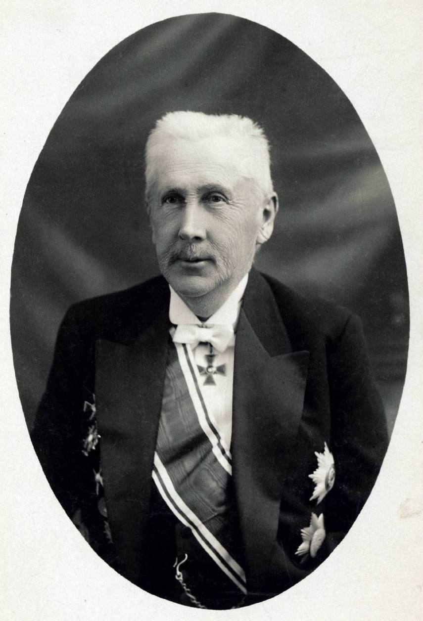 Wilhelm Solomonovich Heinzelmann